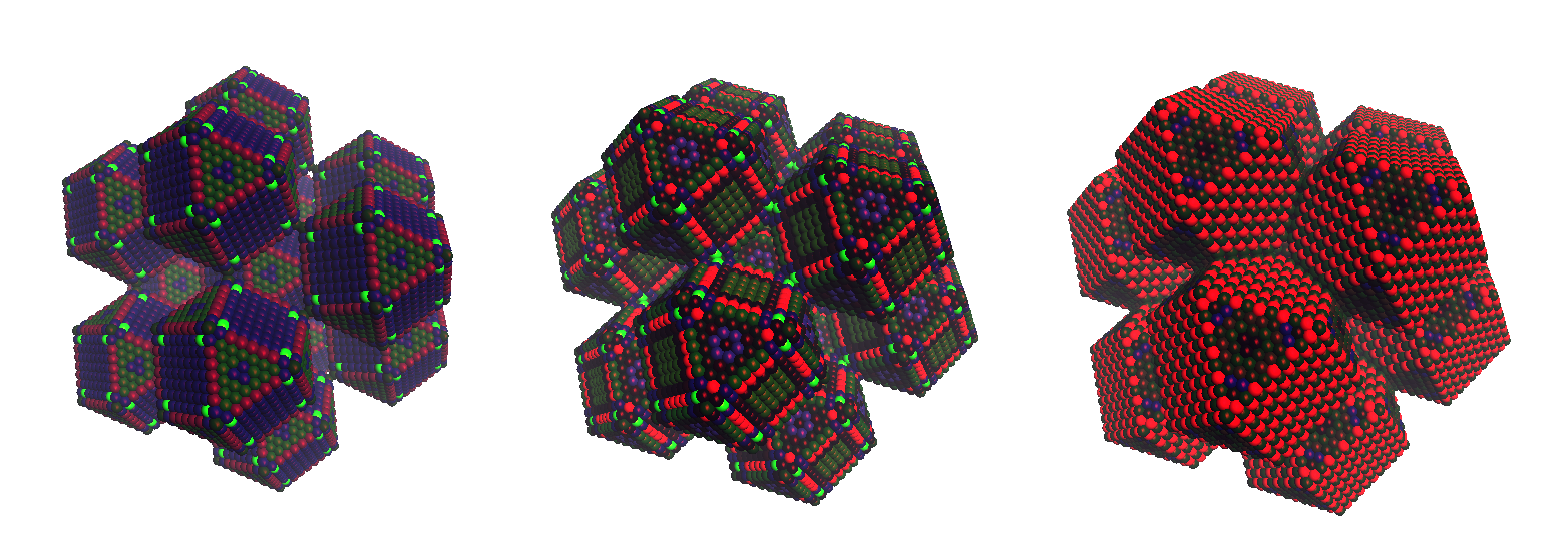 cellular automata